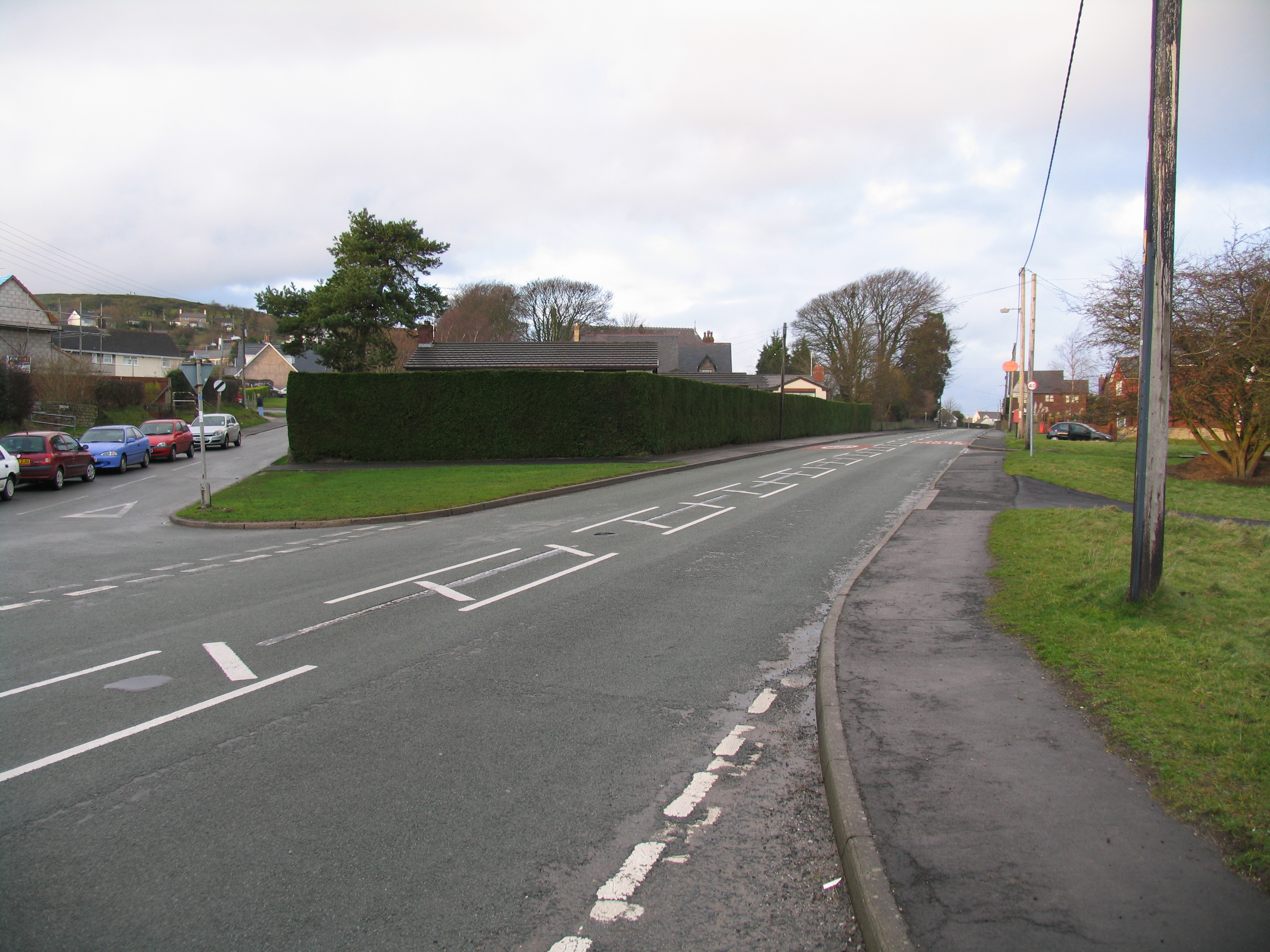 Rhosesmor's main road, looking towards the church and Post Office